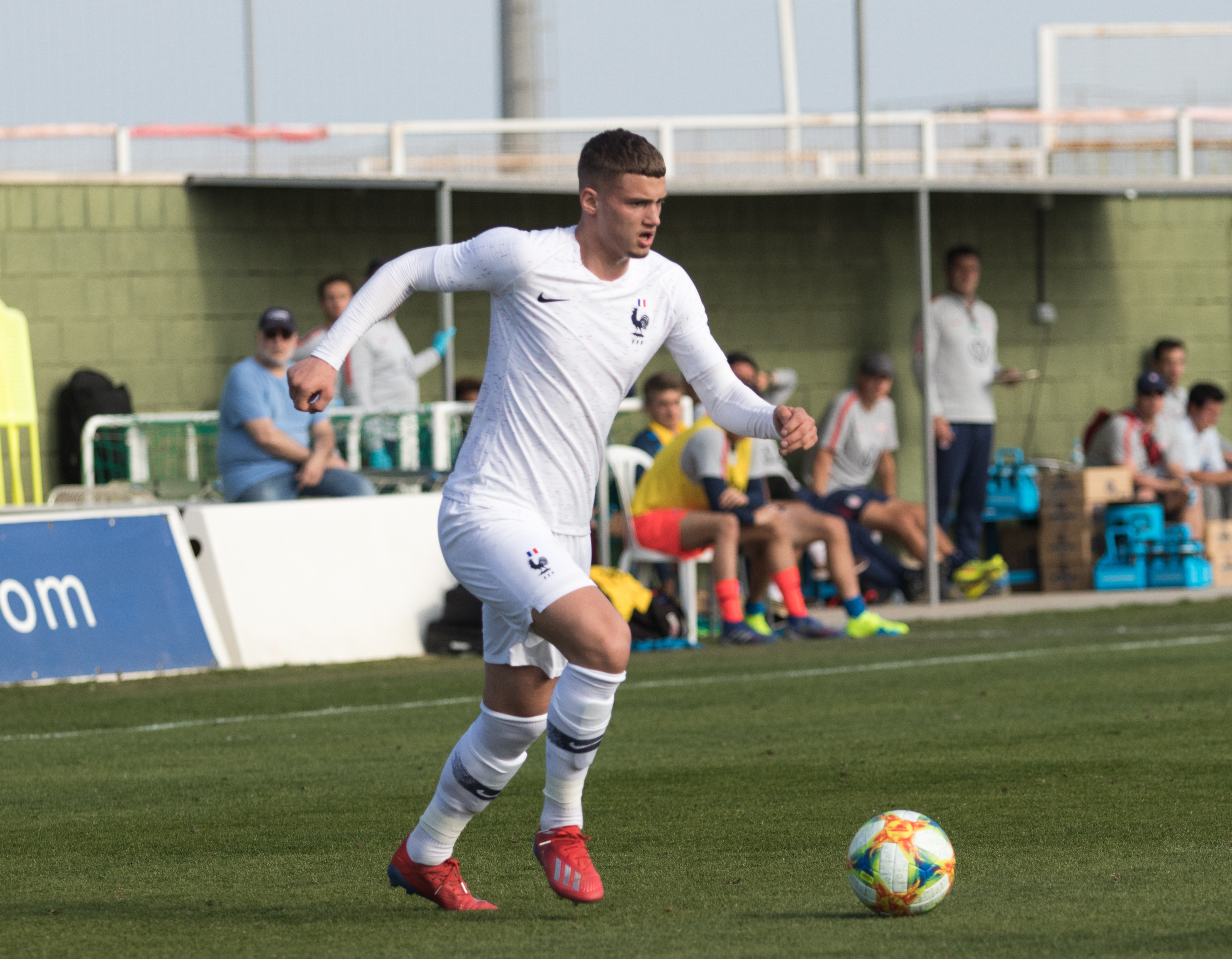 Mickaël Cuisance playing for France U20 against the United States U20 on March 22, 2019.